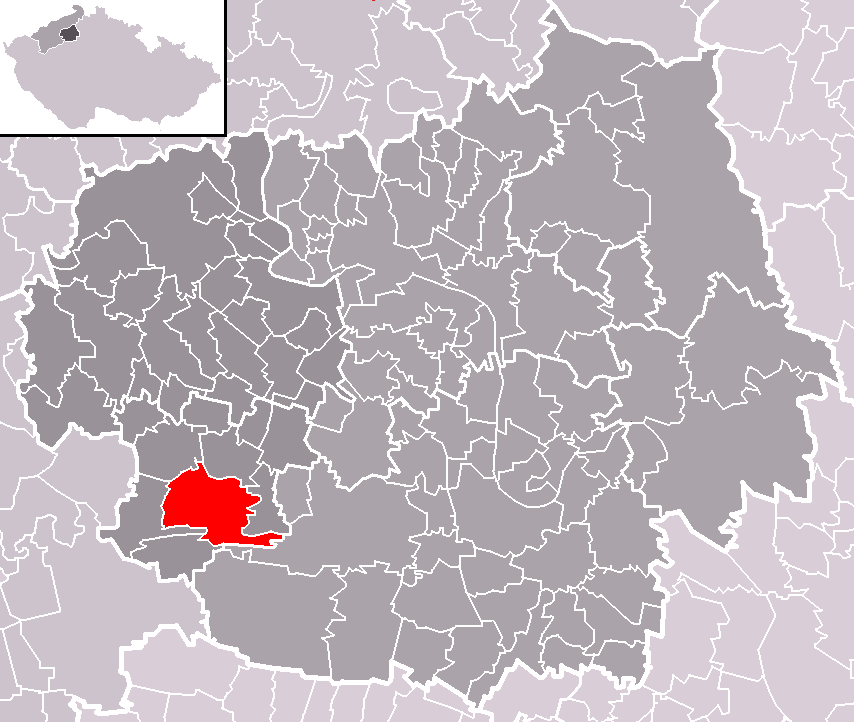 Location of Libochovice town within Litoměřice District and administrative area of Lovosice as a Municipality with Extended Competence.